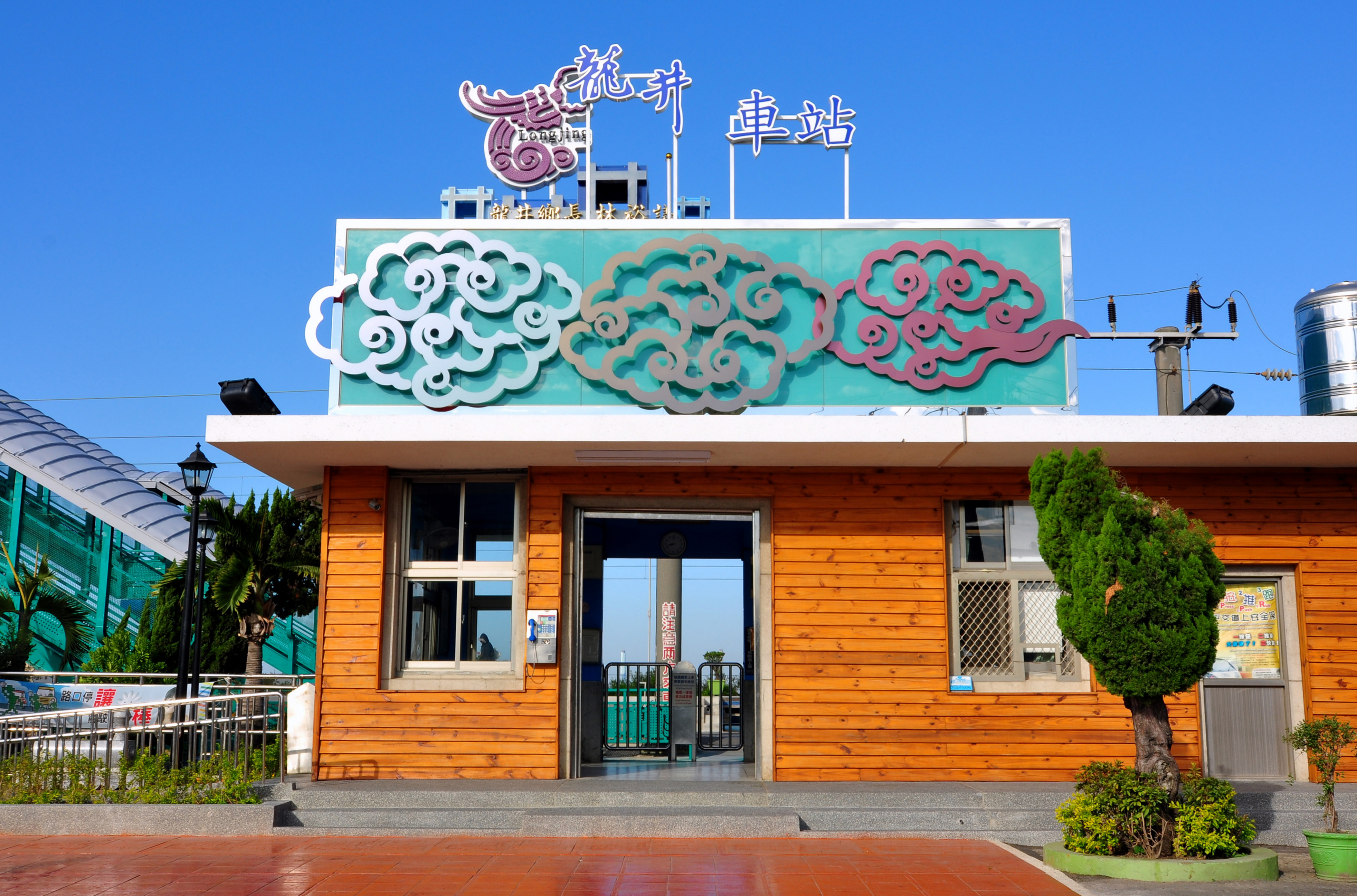 The new reconstruction completes Longjing Township train station.